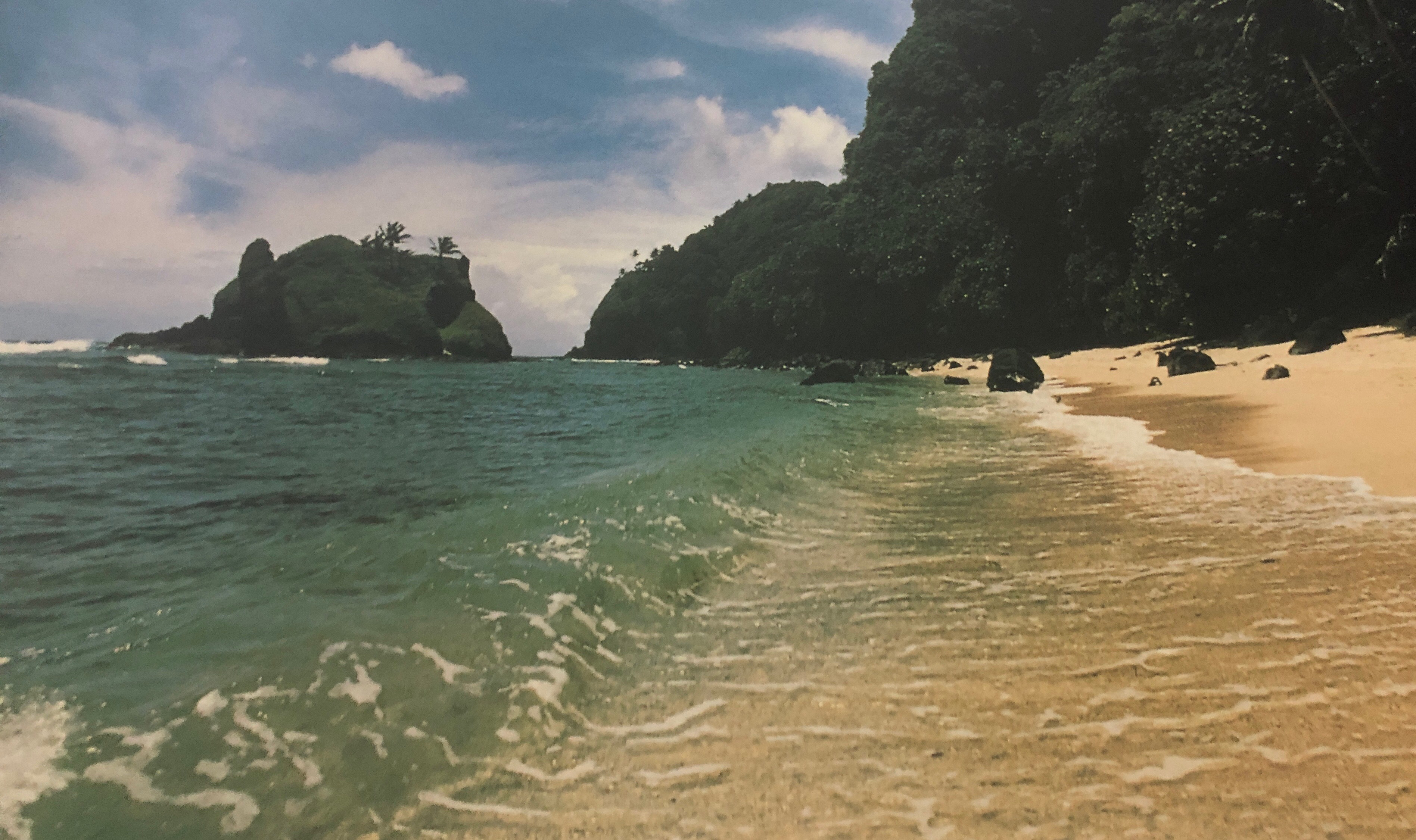 Sandy beach between the villages of Poloa and 'Āmanave on Tutuila Island, American Samoa